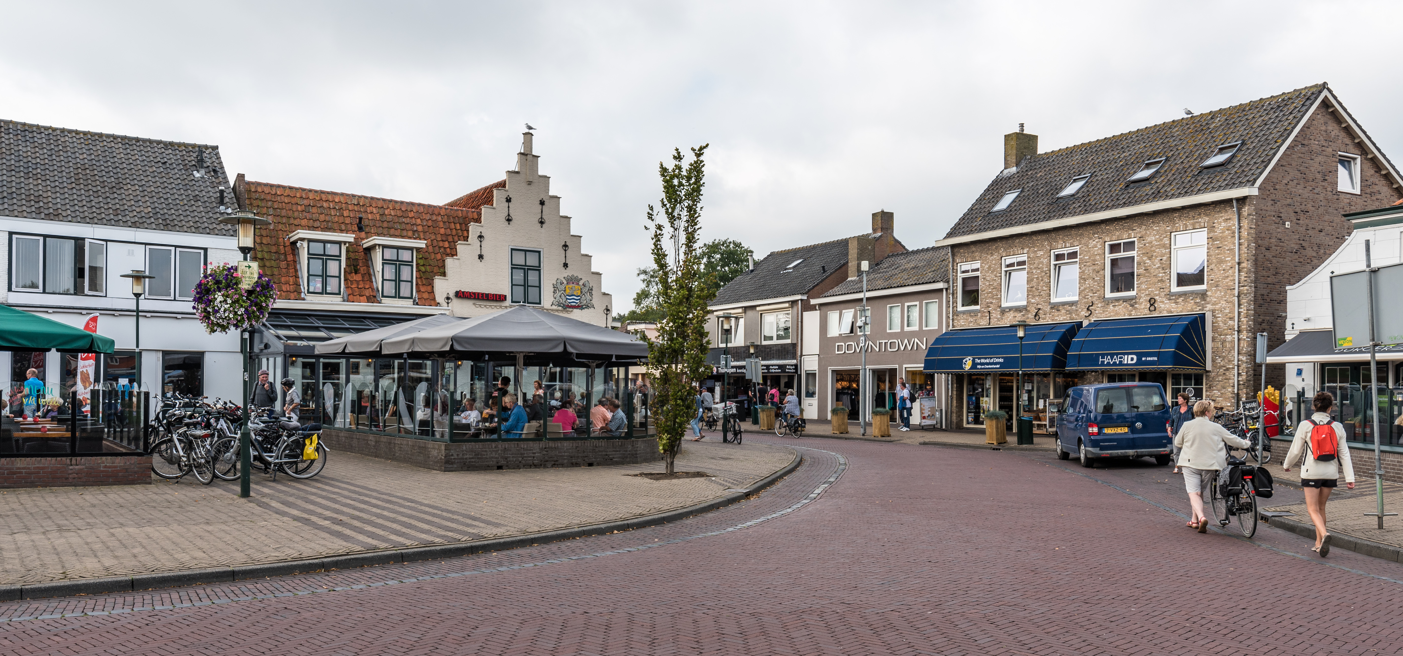 Town view of Renesse